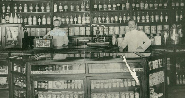 Cropped image of first Siam Dispensary